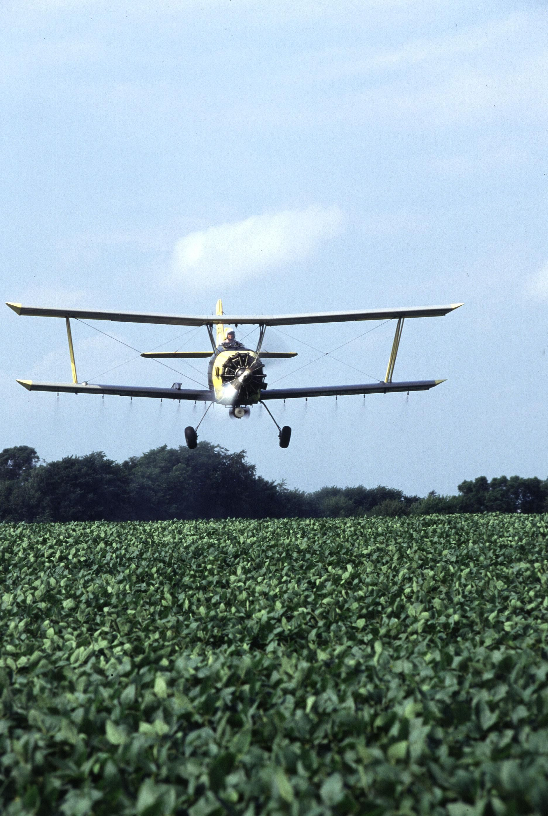 Cropduster over soybean field